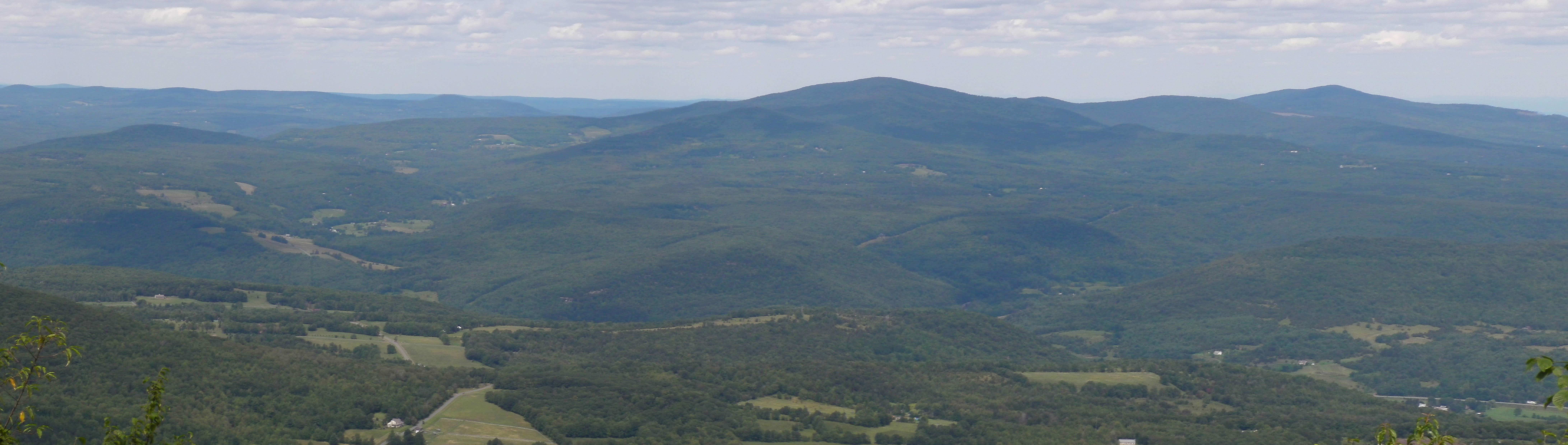 View from Bearpen Mountain, facing North, toward the town of Prattsville, New York. A stitch of a few images.